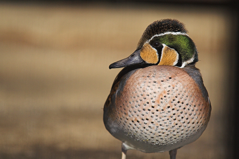 Baikal Teal Sarcelle élégante (Anas formosa)